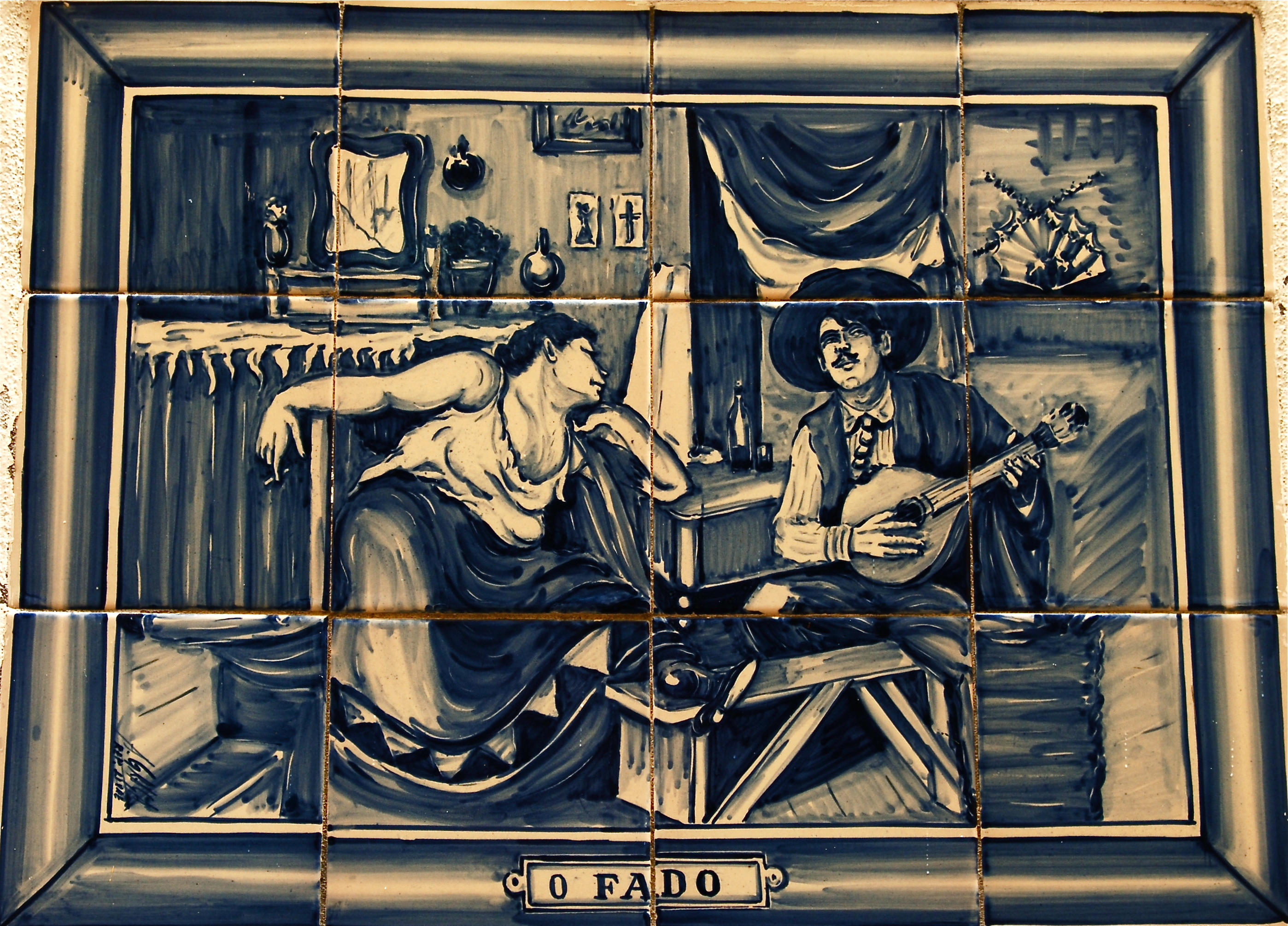 "Fado", one of the Azulejos at Estrada Velha, Sintra, Portugal